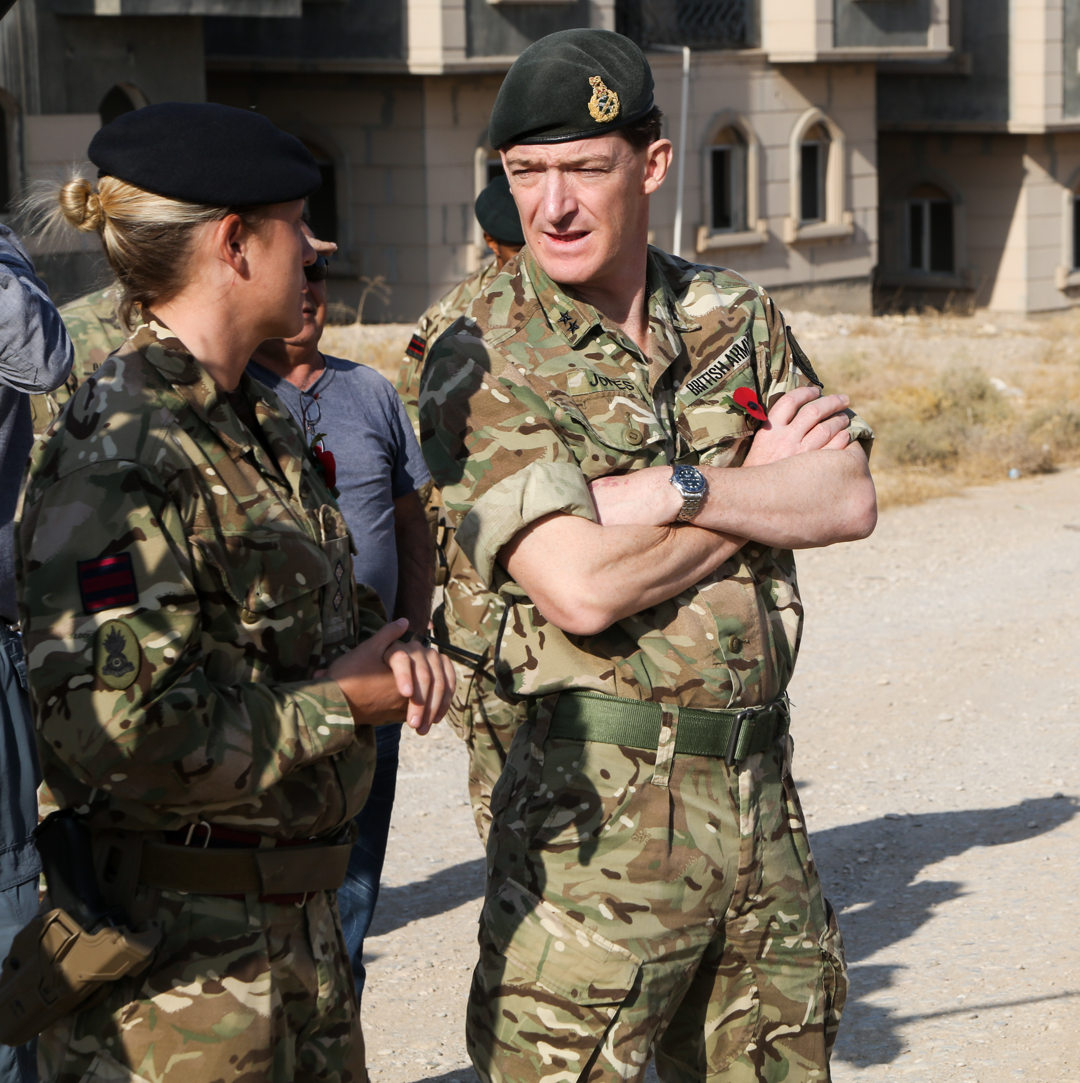 United Kingdom Maj. Gen. Rupert Jones, Deputy Commander – Strategy and Support, Combined Joint Task Force – Operation Inherent Resolve, (CJTF-OIR),speaks with a British explosive ordnance disposal trainer during a visit near Erbil, Iraq, Nov. 7, 2016. CJTF-OIR is a multinational effort to weaken and destroy Islamic State in Iraq and the Levant operations in the Middle East region and around the world. (U.S. Army photo by Sgt. Lisa Soy)